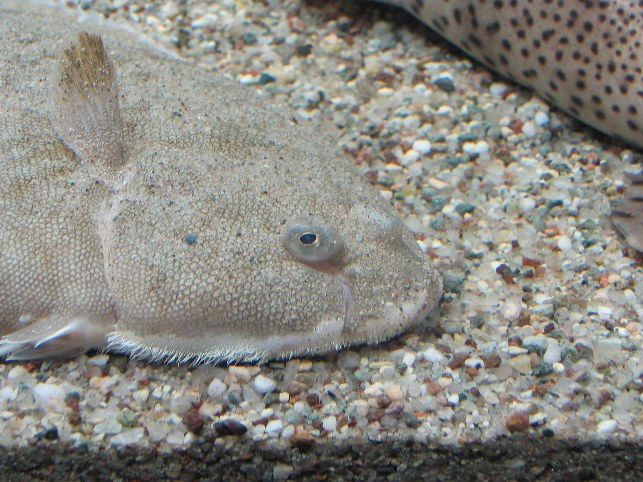 Sole